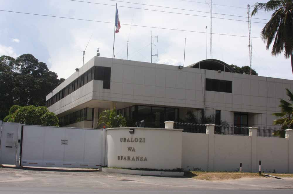 Embassy of France, Dar es Salaam